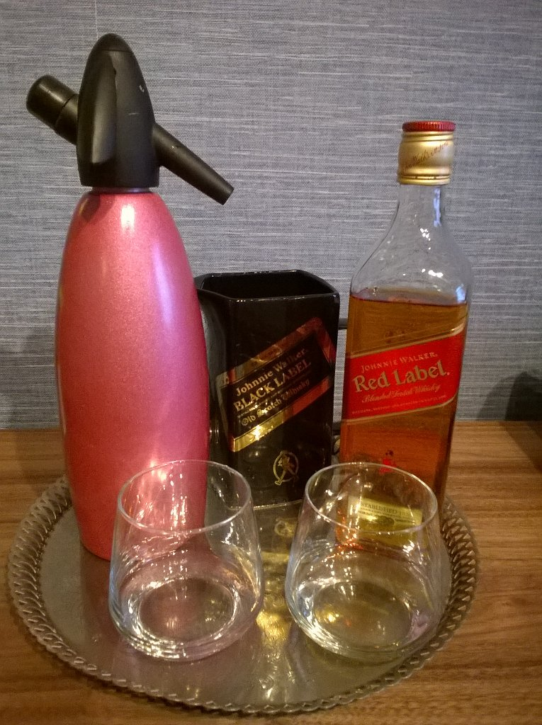 Whisky and Soda, staple of British socialising in the 1960's